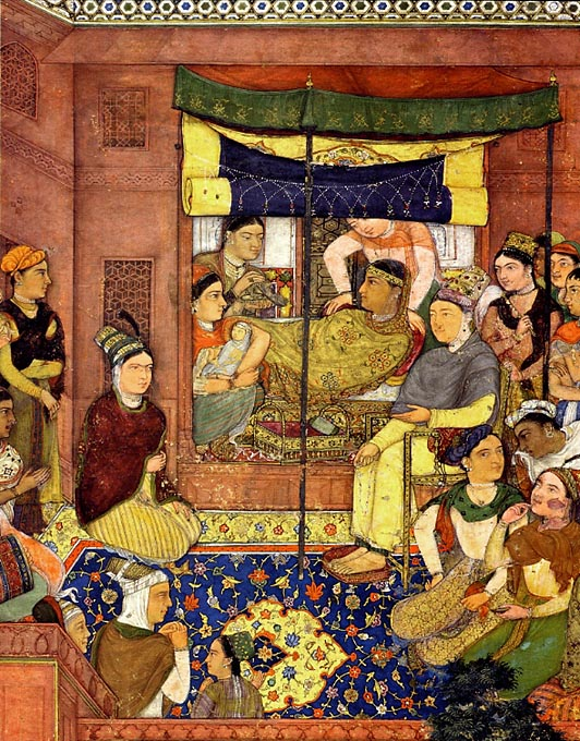 A painting describing the scene of the birth of the 4th Mughal emperor of India, Jahangir.